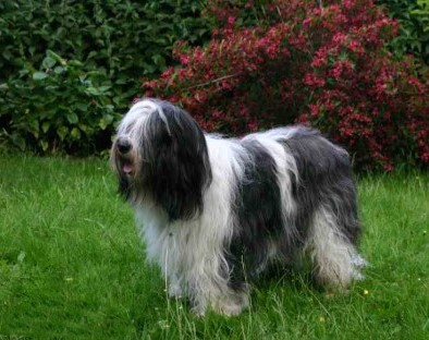 Polish Lowland Sheepdog, Bitch 3,5 years old